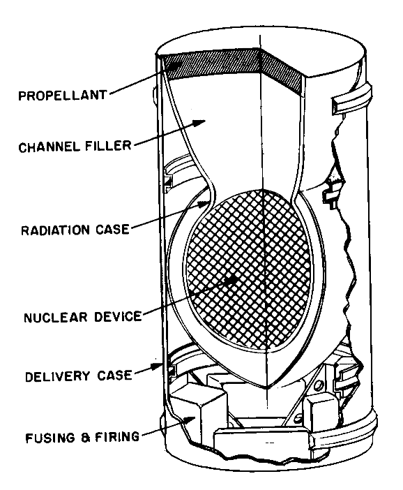 Pulse propulsion unit of project Orion vehicle